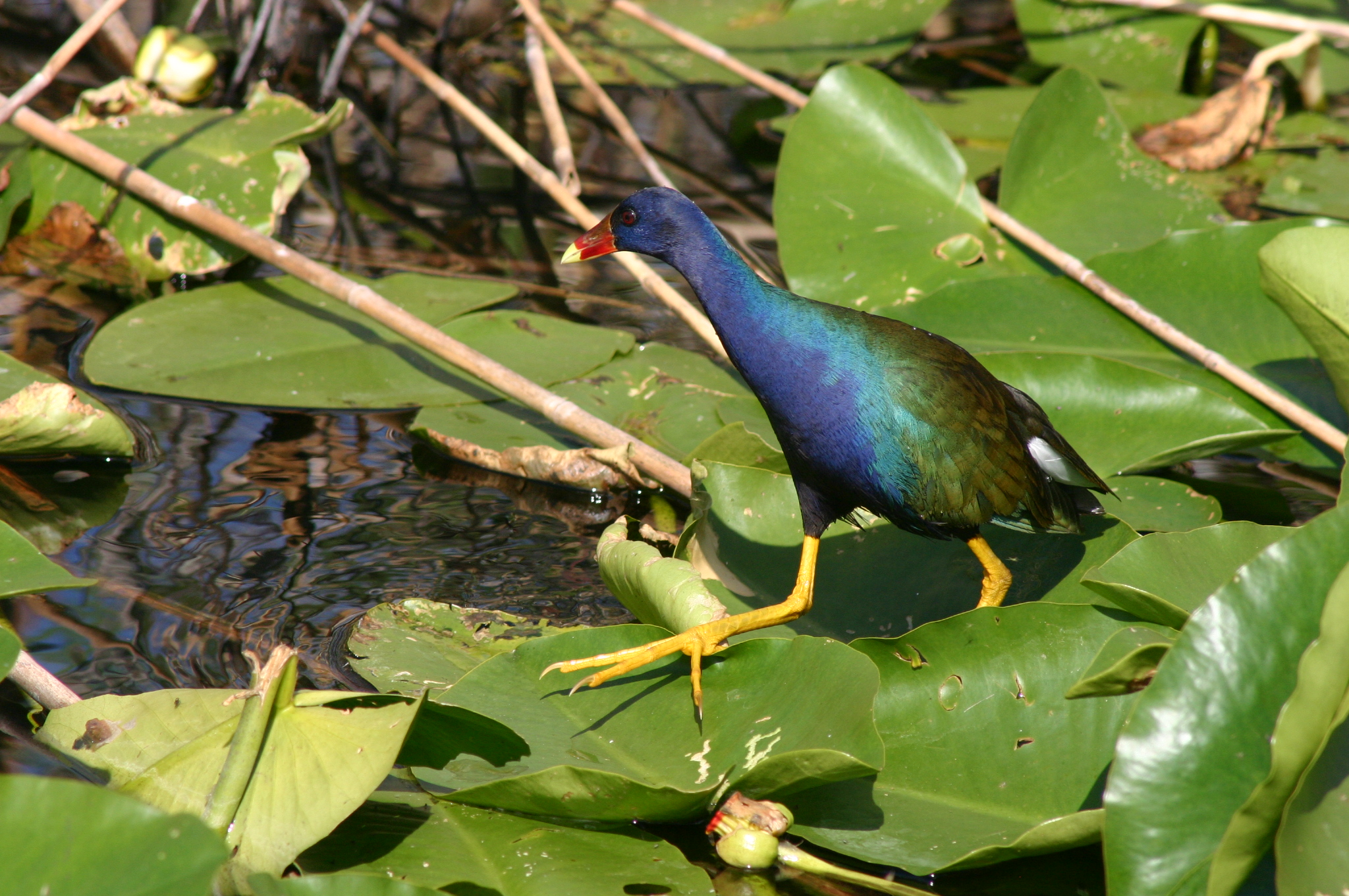 An American Purple Gallinule (Porphyrio martinica) walking.